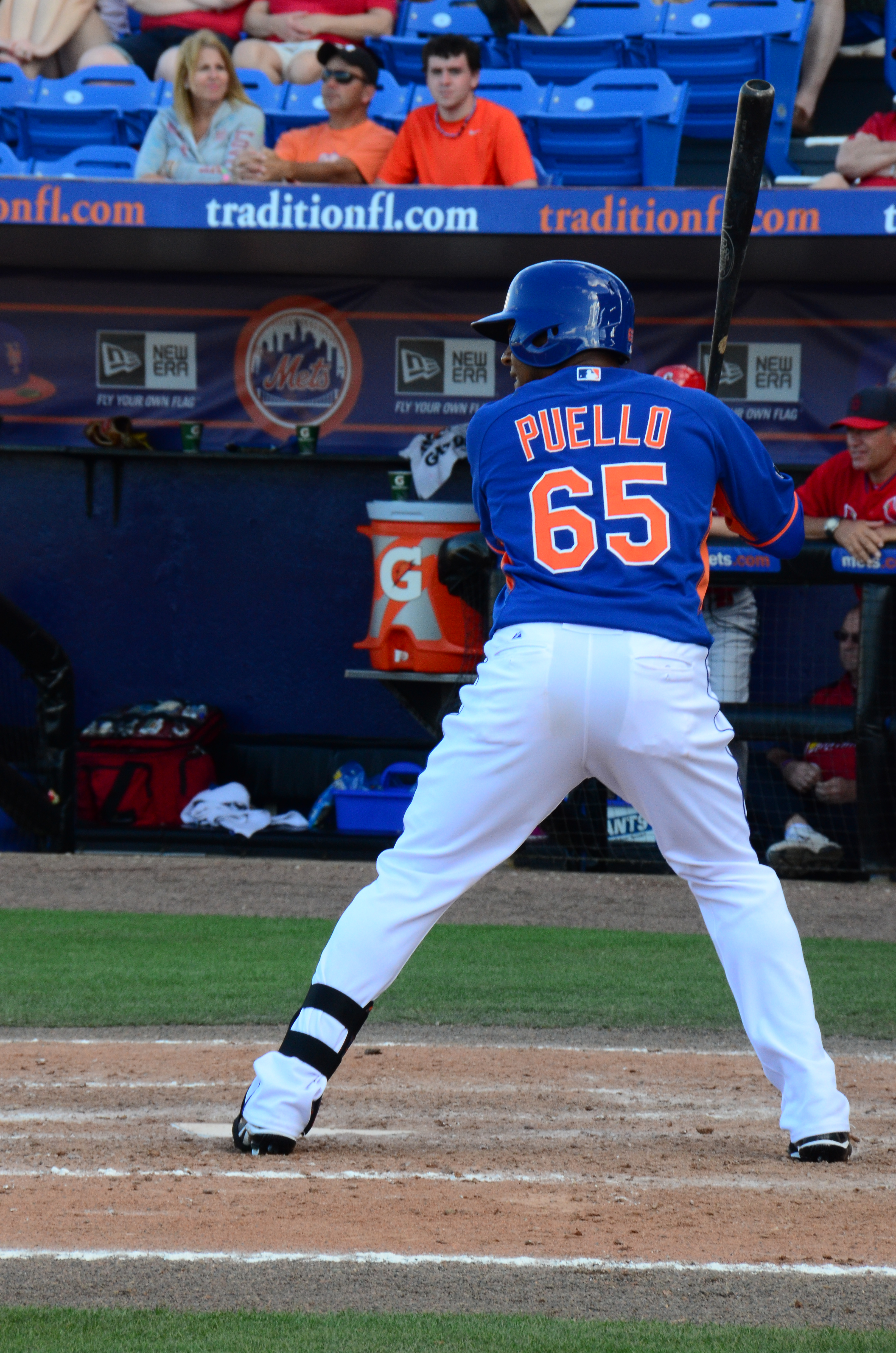 César Puello, March 7, 2014, Tradition Field